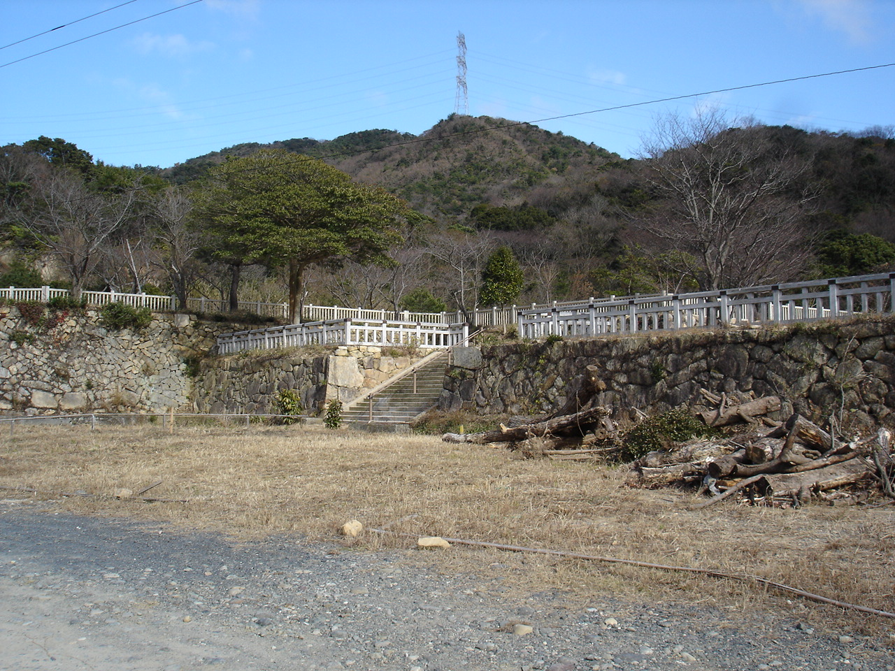 Katsuyama-goten Castle Photo by Wiki708